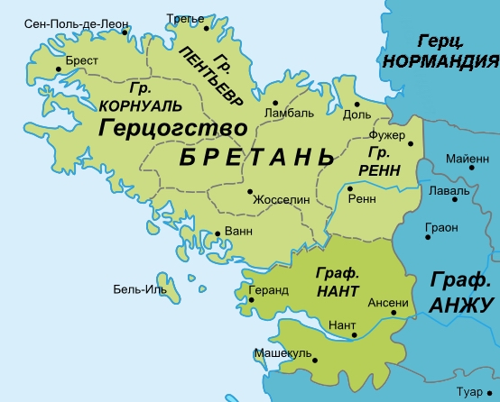 County of Nantes, 1154